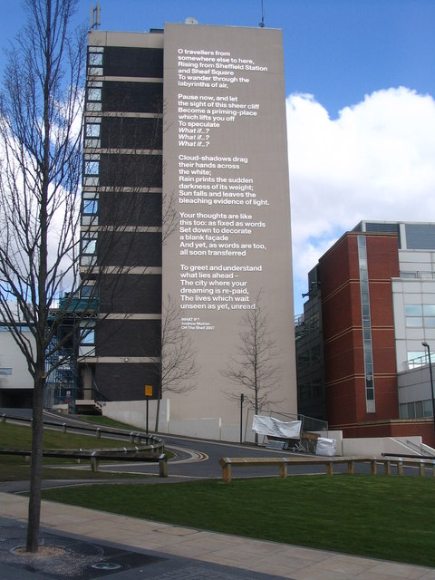 Welcoming poetry! A poem by Andrew Motion welcomes travellers to Sheffield. The poem is written on the side of the Howard Building of Sheffield Hallam University and is visible from Sheffield train station. This photograph is taken from Howard Street.